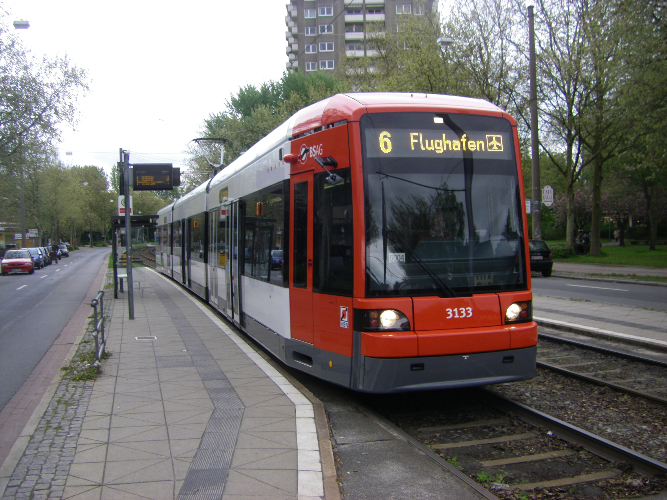 Tram Nr. 3133 in Bremen, Germany at station Emmastraße (2010)